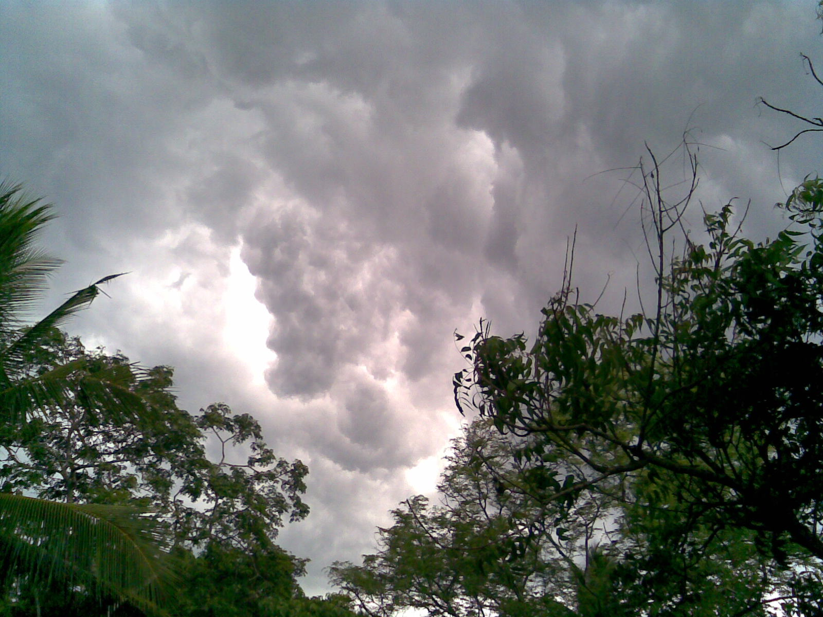 Rain Clouds in Kerala, India.